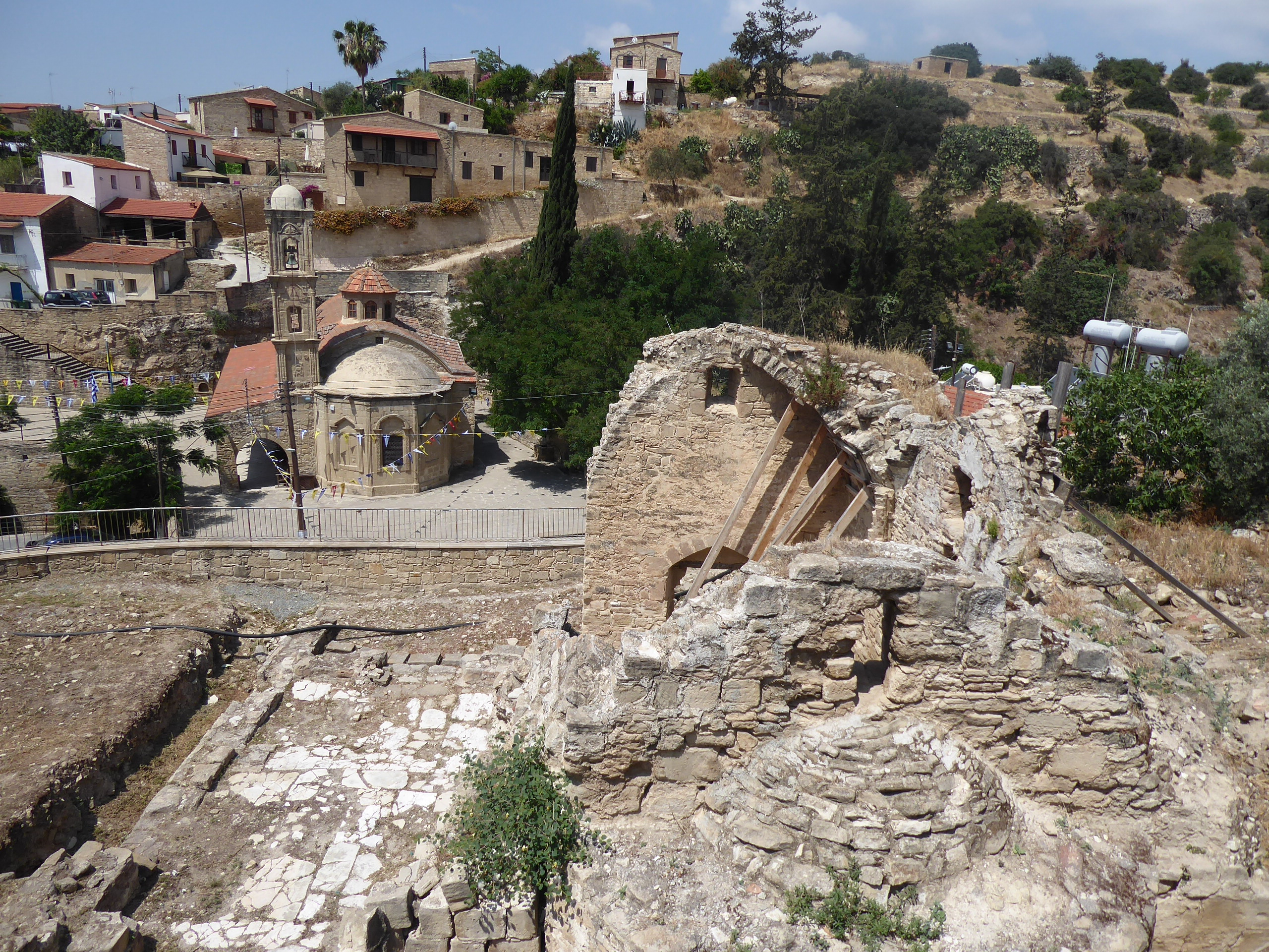 Church of Timios Stavros (Holy Cross), Tochni